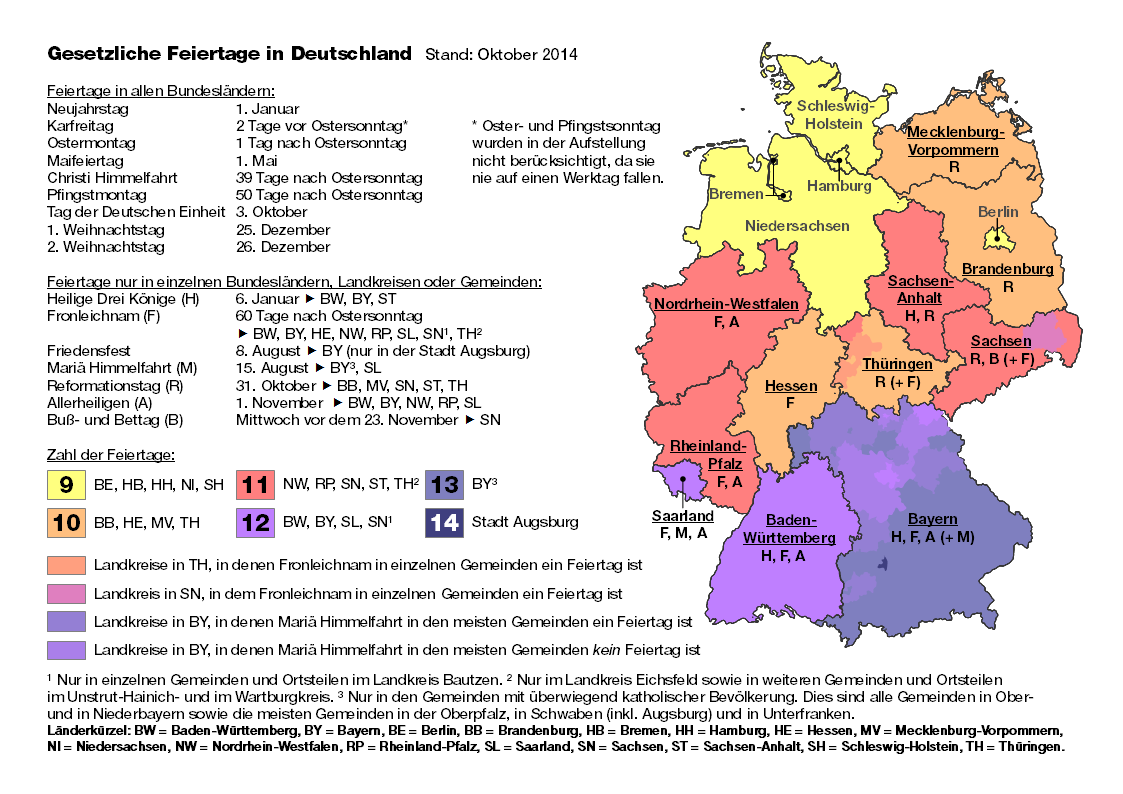 Most public holidays in Germany are not regulated by a federal law, but by each of the 16 bundesländer. This chart shows their geographic distribution.